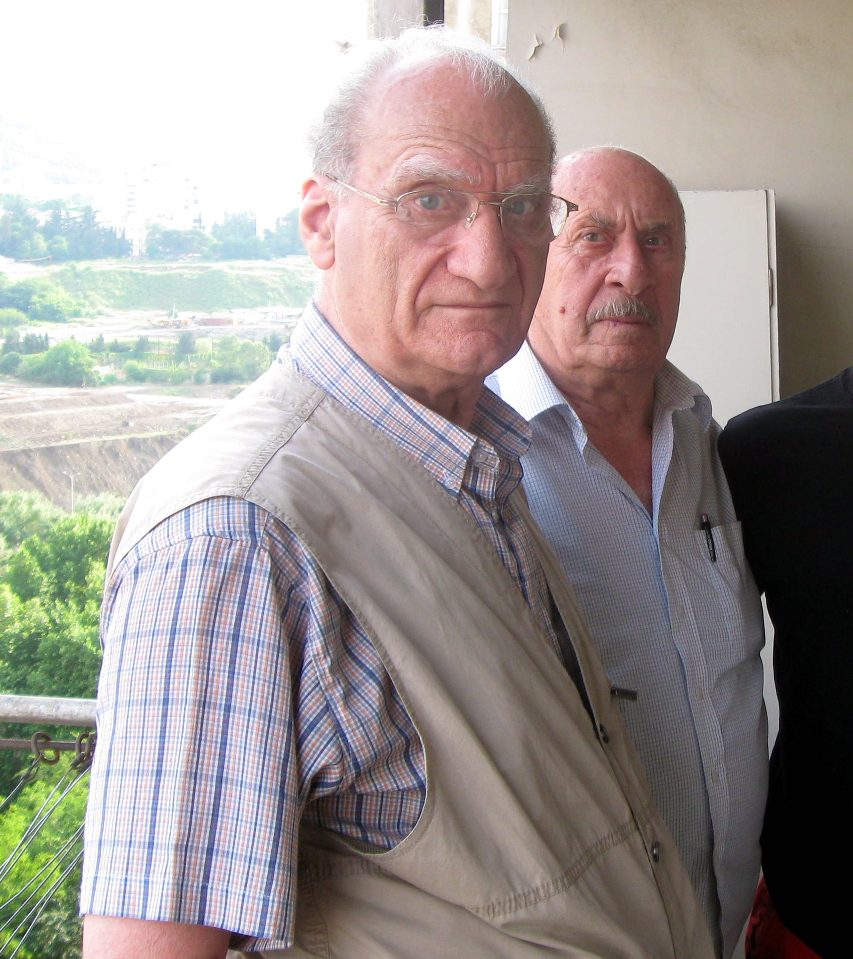 Dr. Muskhelishvili pictured on the left. Picture taken in Tbilisi, Georgia with colleague Guram.